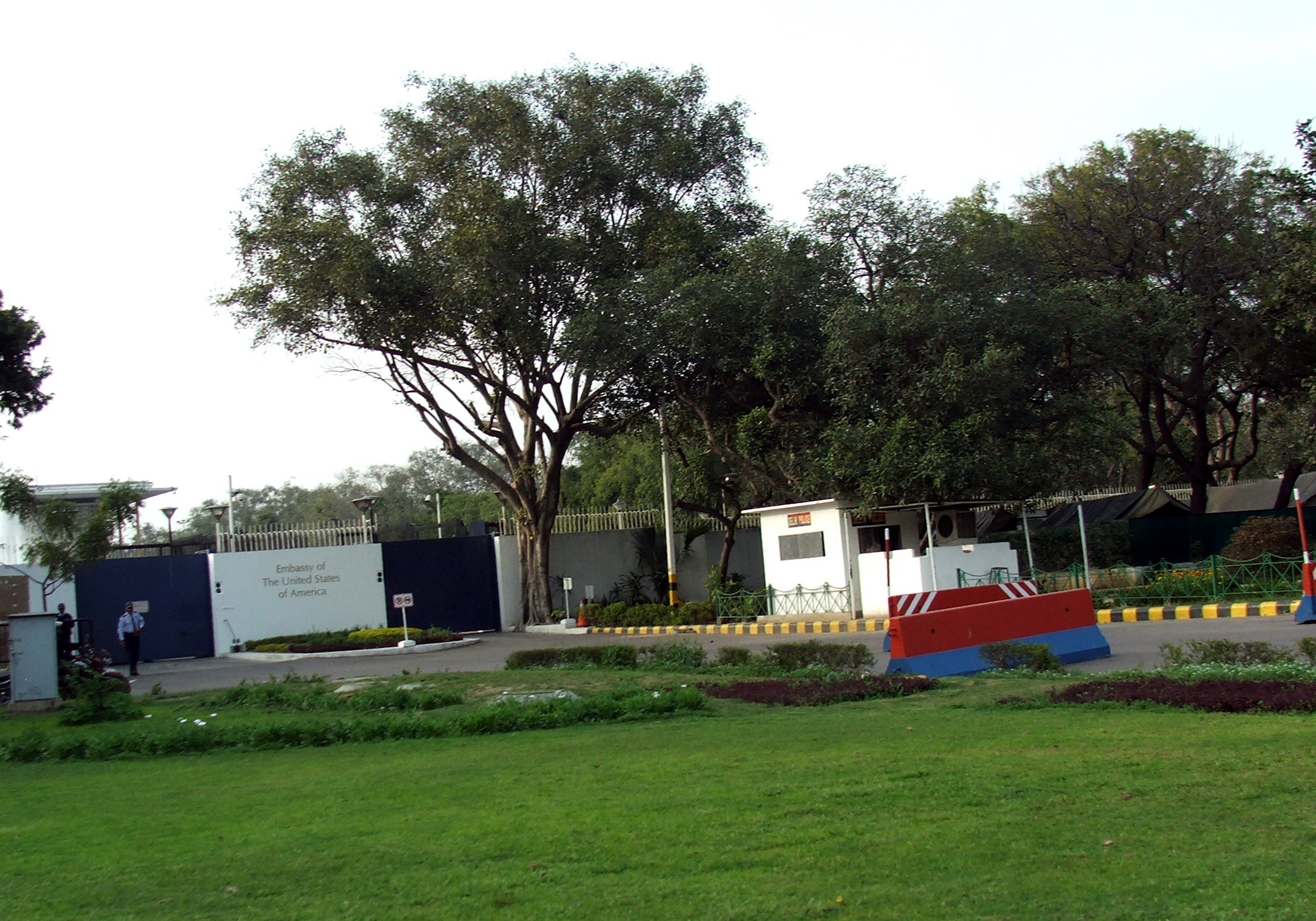 Entrance to the US Embassy in New Delhi, India.